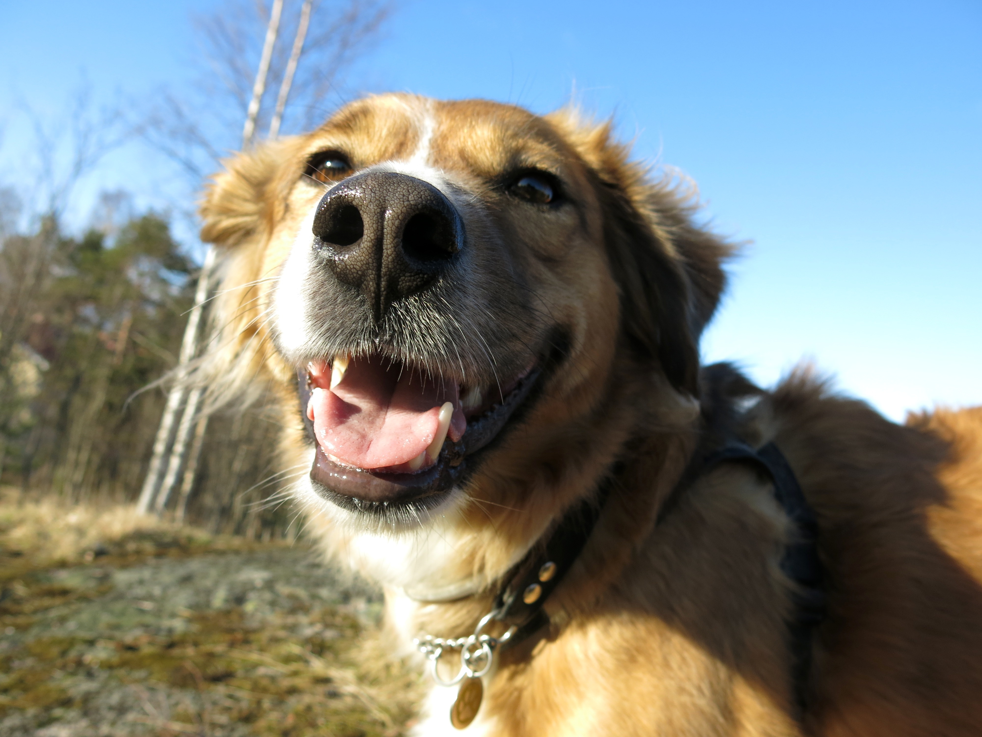 A rescue dog adopted from Russia to Finland in 2017. She was living on the streets in Vyborg with her puppies and taken to a dog shelter before the adoption. Photographed in Helsinki, Finland.